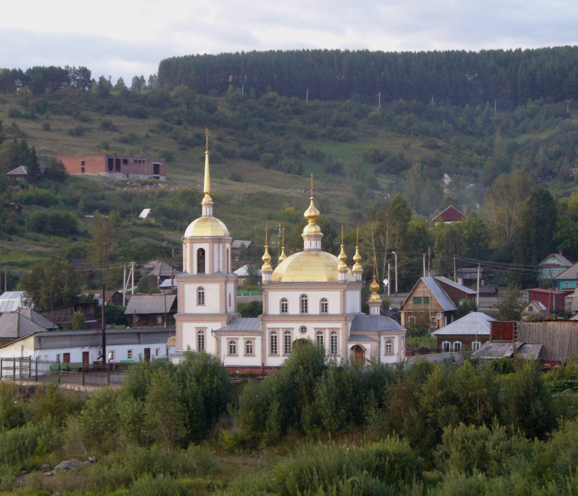 Church in Mundybash, Kemerovo oblast, Russia